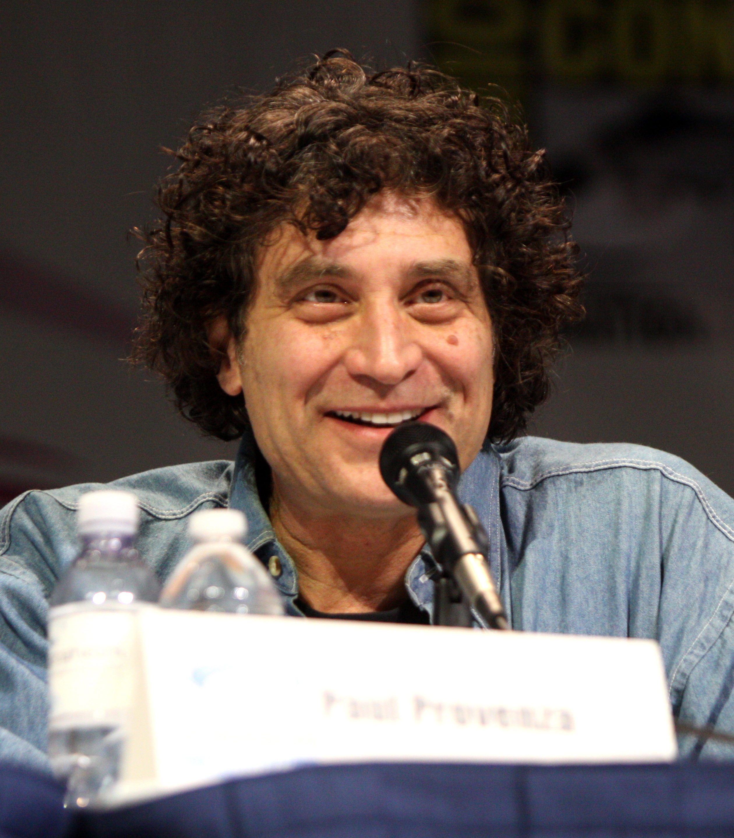 Paul Provenza speaking at the 2013 WonderCon in Anaheim, California on March 30, 2013.